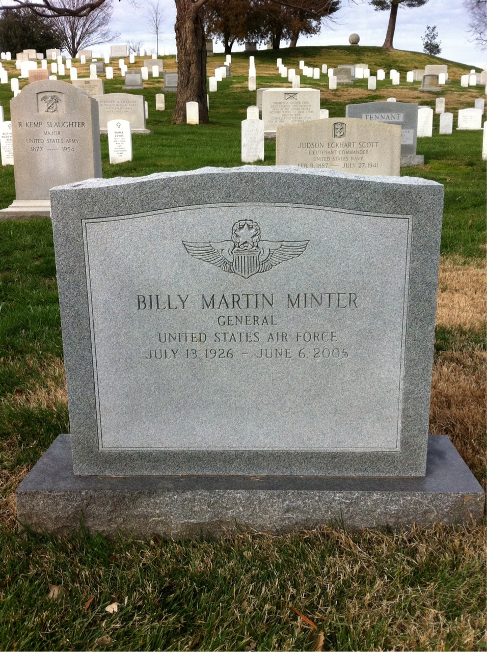 Grave of Billy M. Minter at Arlington National Cemetery